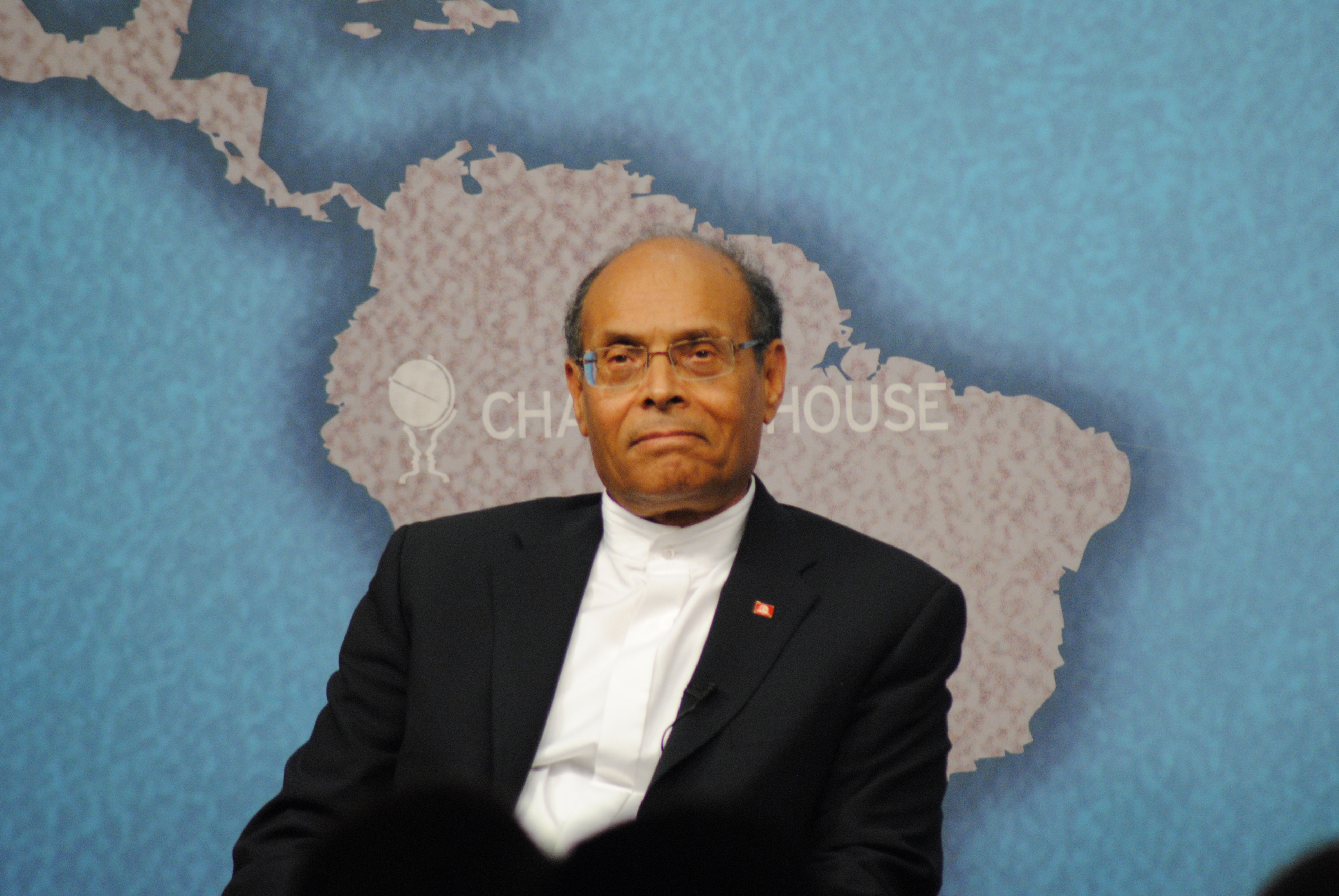 Moncef Marzouki after receiving the Chatham House award 2012